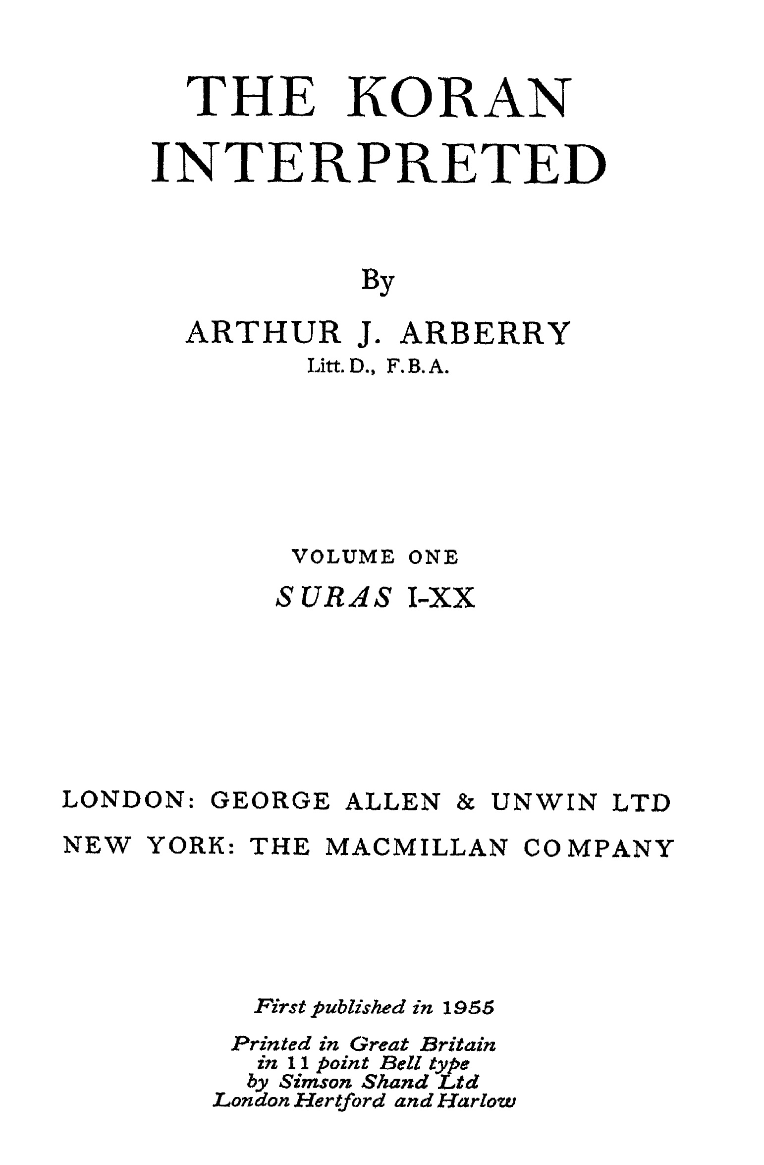 Title of The Koran Interpreted (1955). Author: Arthur John Arberry